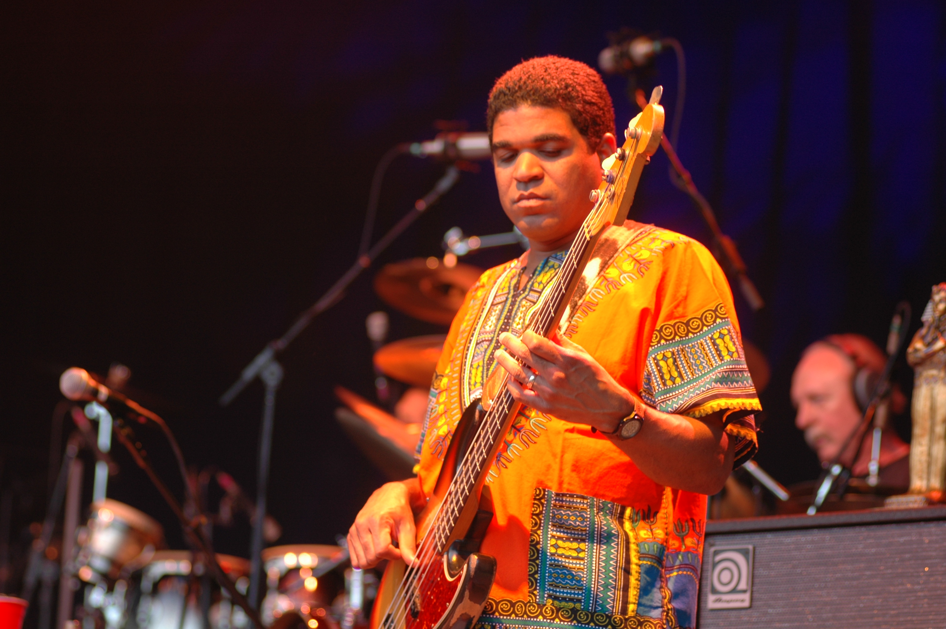 Oteil Burbridge of the Allman Brothers at Misner Park, Boca Raton, FL